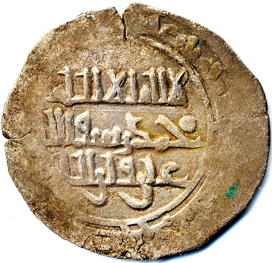 Sliver dirham of Shibl al-Dawna Nasr ibn Salih, the Mirdasid emir of Aleppo, minted in Aleppo in 1033/34